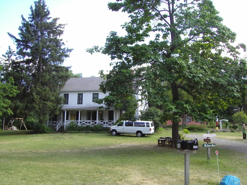 Photo of summer camp, Camp Rising Sun, Red Hook, New York